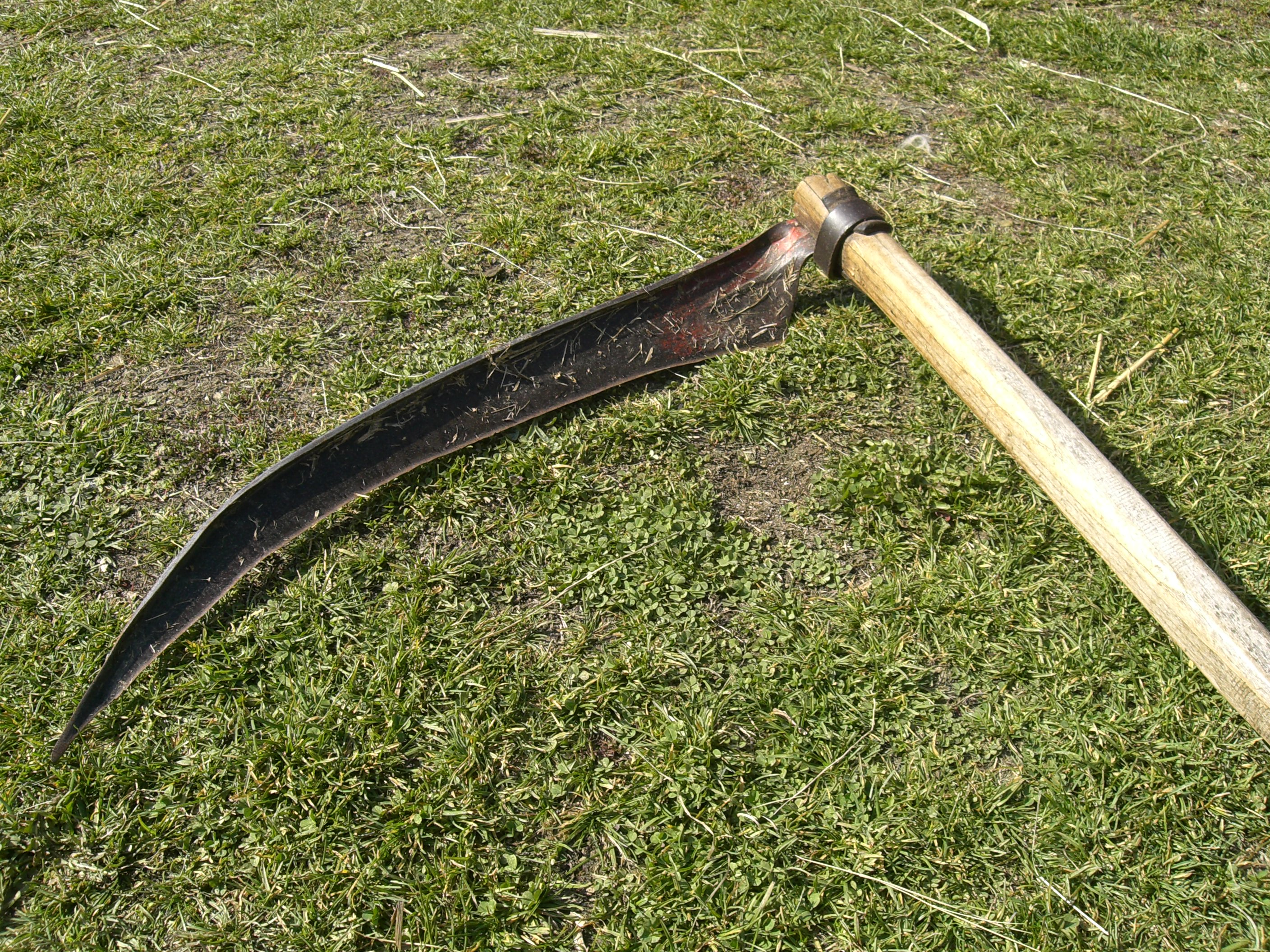 Scythes - detail ostří